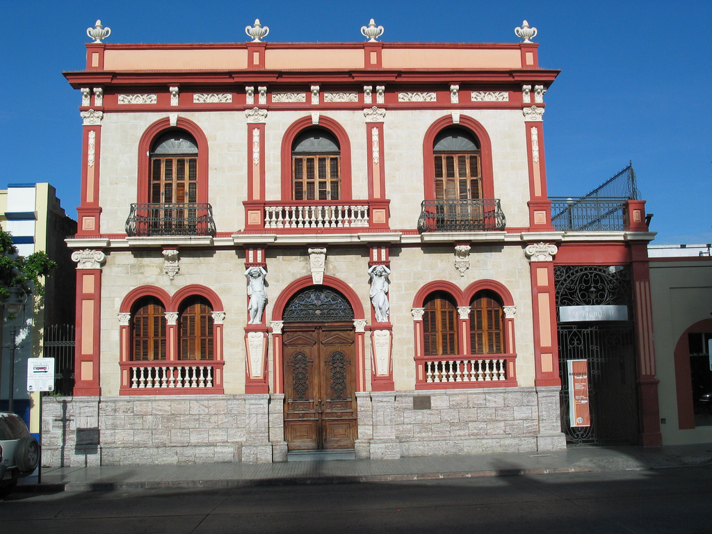 The Residencia Armstrong-Poventud — an 1899 residence, and museum, within the Ponce Historic Zone, in Ponce, Puerto Rico. On the National Register of Historic Places in Ponce, Puerto Rico.